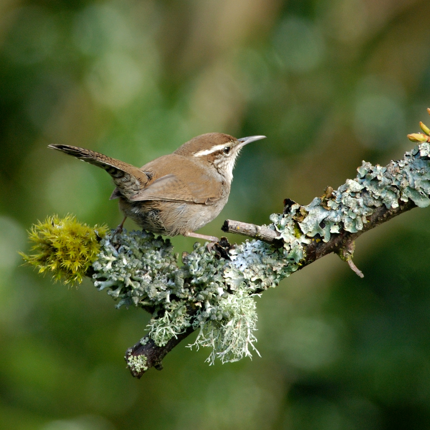 Bewick's Wren Thryomanes bewickii calophonus, Gatewood, Seattle, Washington, USA.